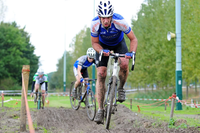 Bruco in a cyclocross race in Spijkenisse, Netherlands